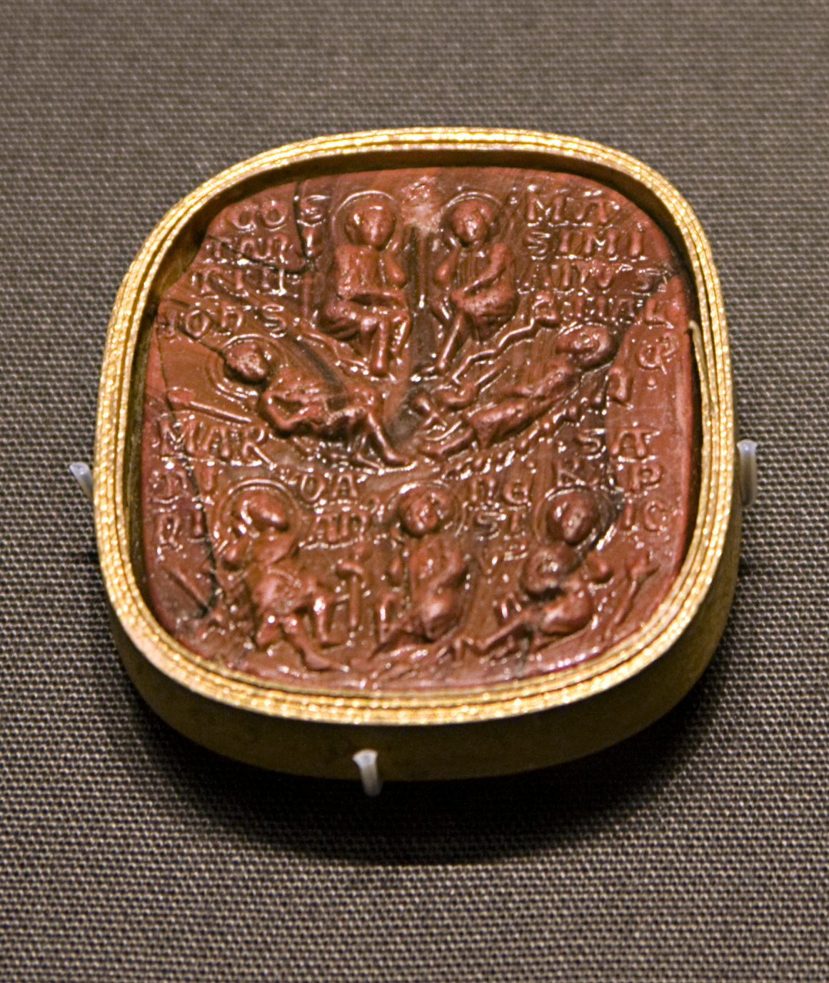 Cameo from the British Museum. Tag on exhibit states: "Seven Sleepers of Ephesus cameo. the glass cameo from Venice depicts the Seven Sleepers of Ephesus. According to legend they were Christians who took refuge in a cave to escape persecution from the Roman emperor Decius (reigned AD 249-51). The cave was walled up but re-opened over 100 years later. The martyrs then miraculously emerged before returning to their final resting-place. About 1200-1300, Venice, Italy, Glass. PE OA 835 Given by Lord Northwick" See BM database entry for more details.